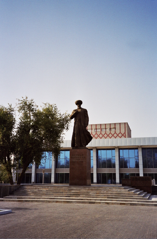 statue of the most famous karakalpak poet